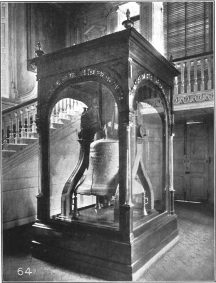 Liberty Bell in glass case, early 20th century.